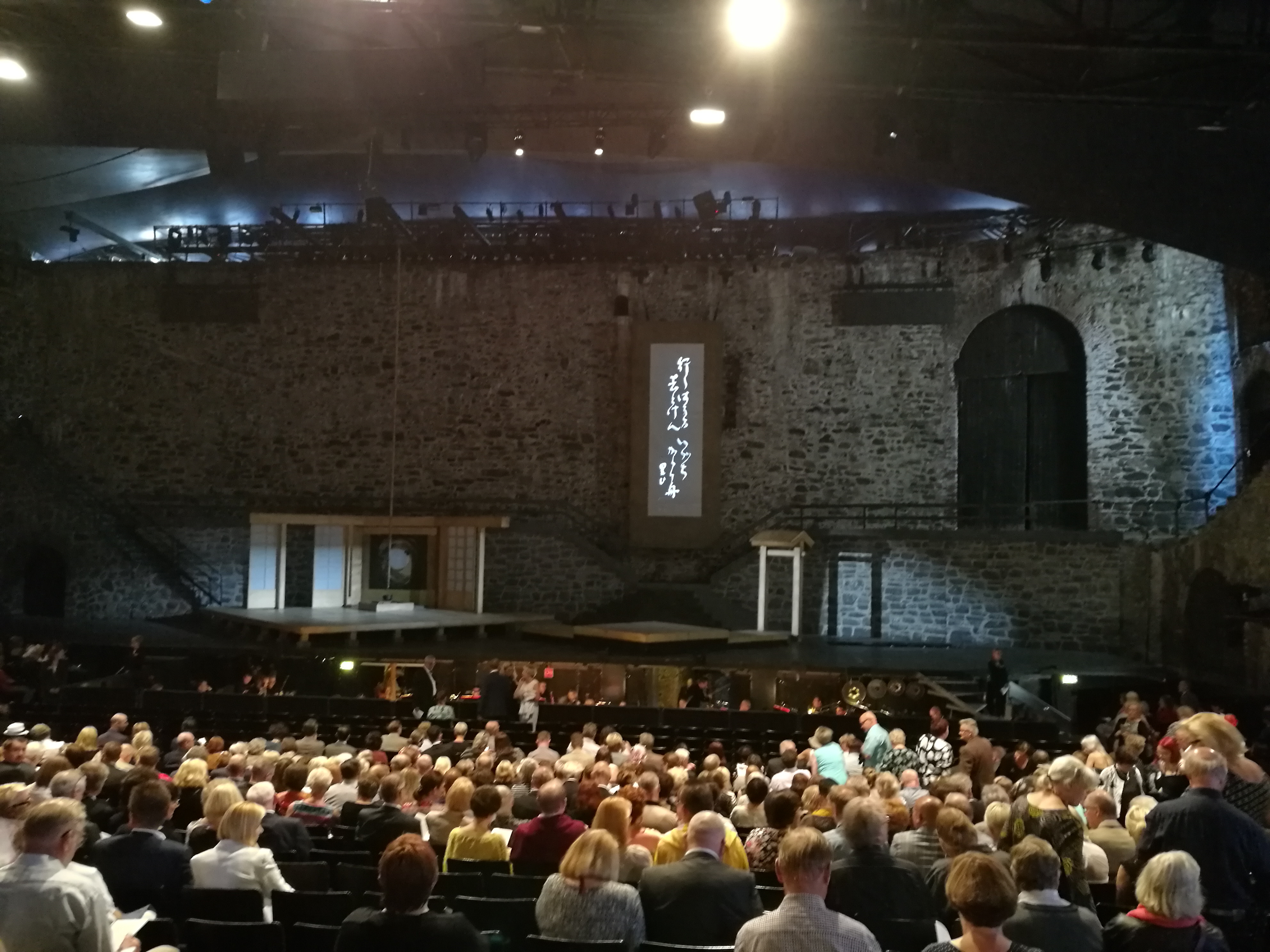 The stage setting for Madame Butterfly, performed on 9 July 2018 at Savonlinna Opera Festival.